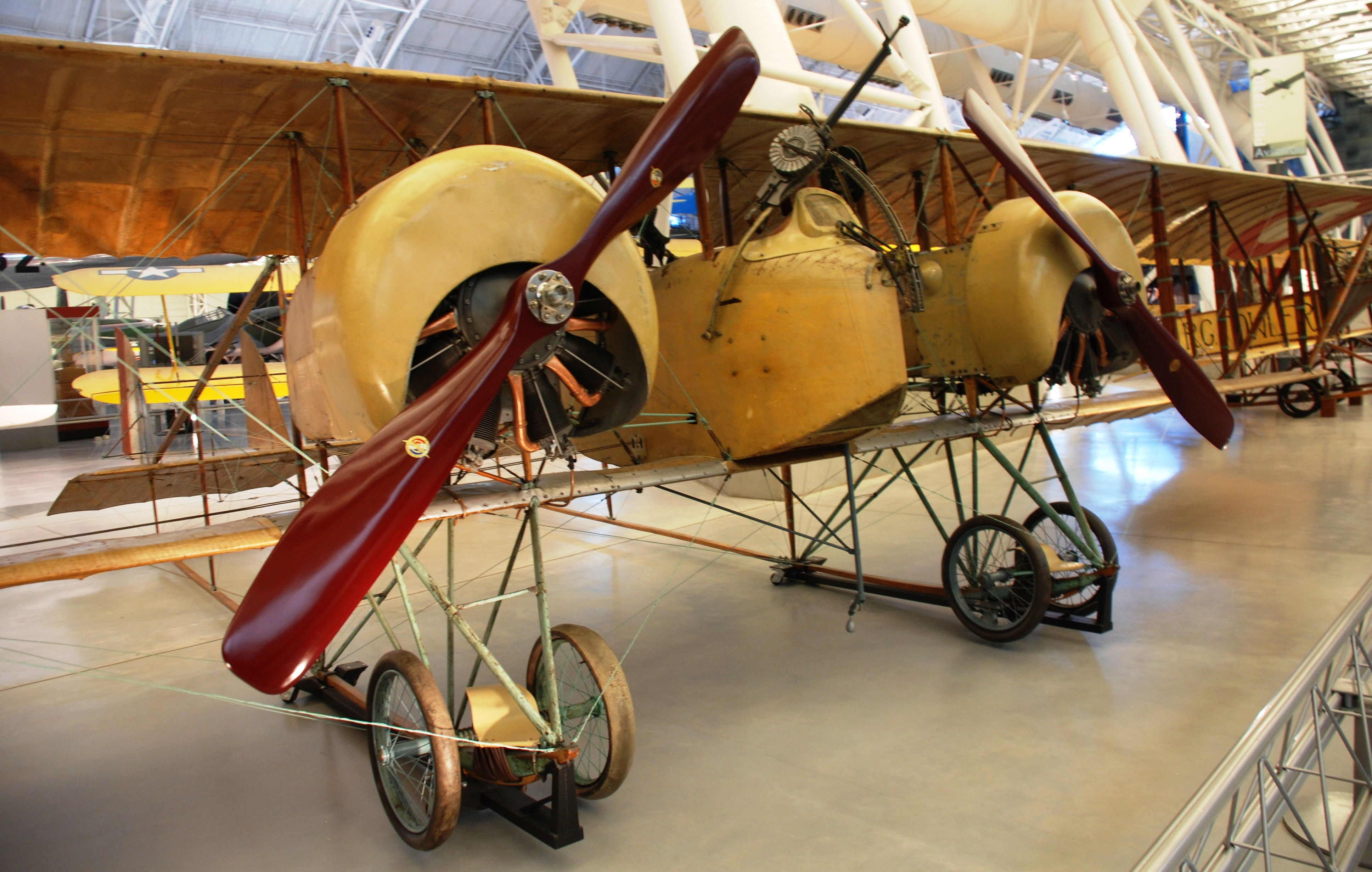 The 1917 French twin-engine Caudron G.4 has great significance as an early light bomber and reconnaissance aircraft. It was a principal type used when these critical air power missions were being conceived and pioneered in World War I. Although fighter aircraft frequently gain greater attention, the most influential role of aviation in the First World War was reconnaissance. The extensive deployment of the Caudron G.4 in this role make it an especially important early military aircraft. Manufacturer: Caudron S.A. Date: 1916-1917 Country of Origin: France Dimensions: Wingspan: 17.2 m (56 ft 5 in) Length: 7.2 m (23 ft 8 in) Height: 2.6 m (8 ft 6 in) Weight: Empty, 733 kg (1,616 lb); Gross, 1,232 kg (2,716 lb) Materials: Airframe: Wood Covering: Fabric Physical Description: Twin-engine, two-seat French World War I biplane reconnaissance and bomber aircraft; two 80-horsepower Le Rhone 9C rotary engines. Tan finish overall.